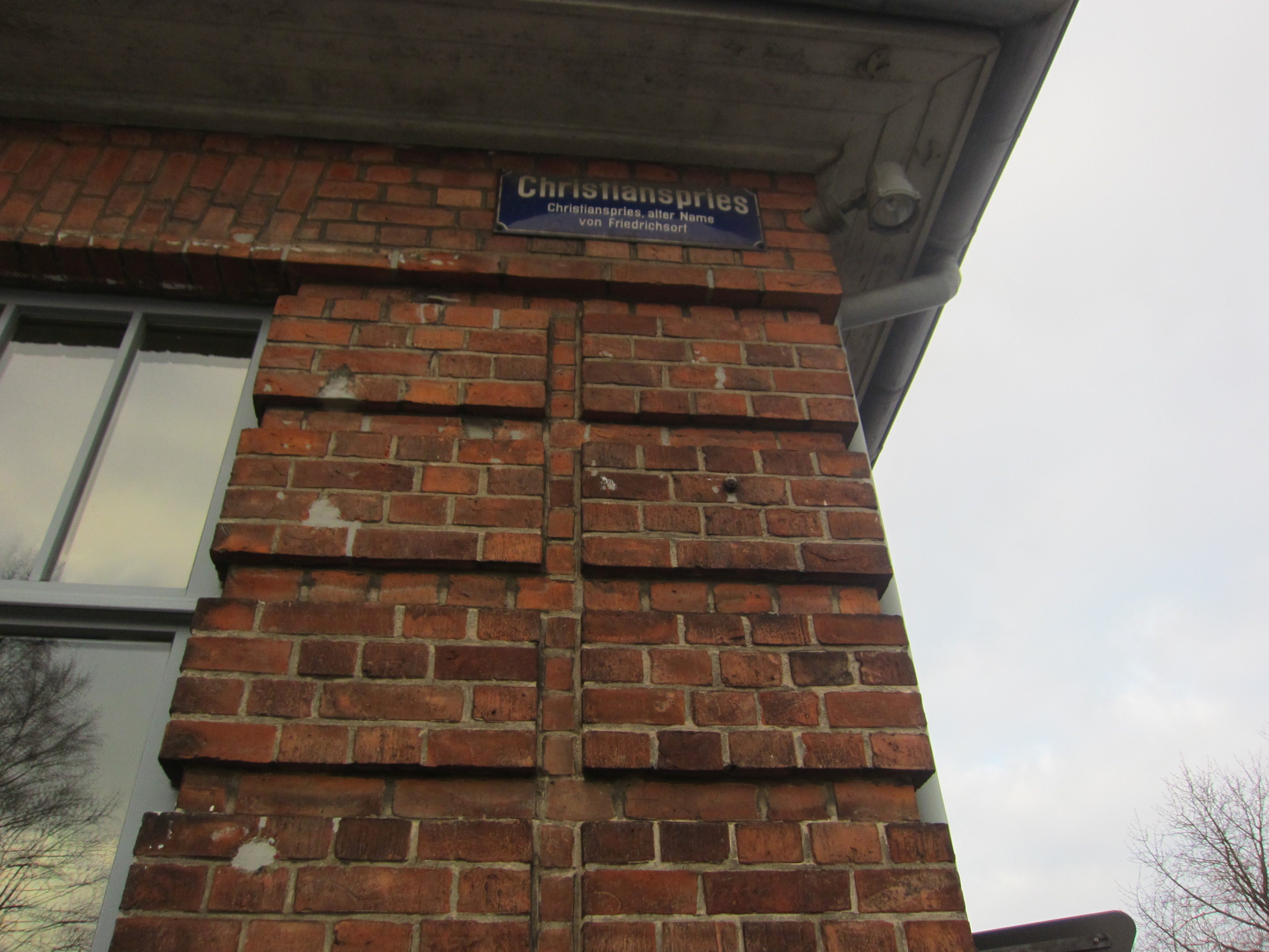 Street sign "Christianspries" in Kiel-Friedrichsort